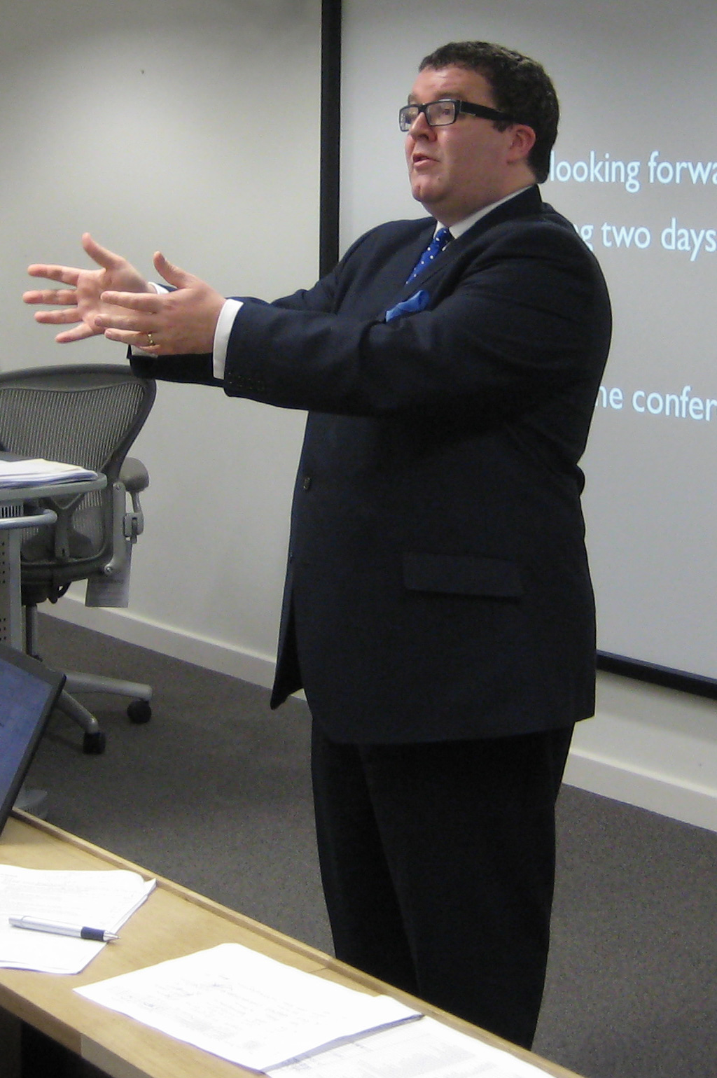 Tom Watson speaking at the 5th COMMUNIA Workshop at London School of Economics, 26th March 2009.